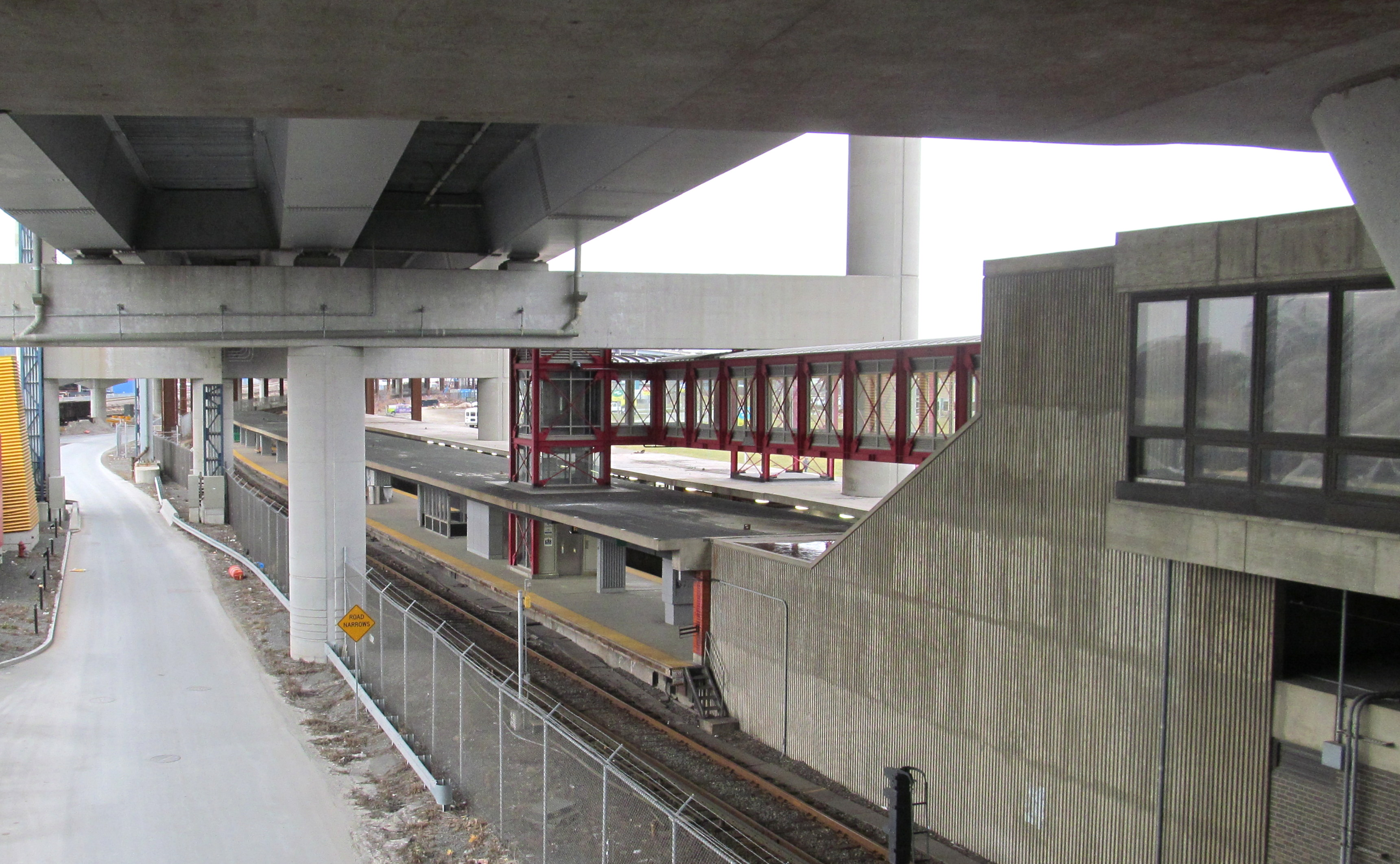 Community College station under I-93, viewed from the west side of the tracks